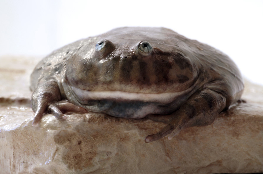 Froggiej my Budgett's Frog